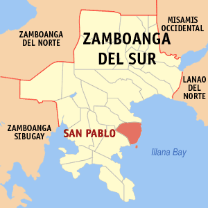 Map of Zamboanga del Sur showing the location of San Pablo